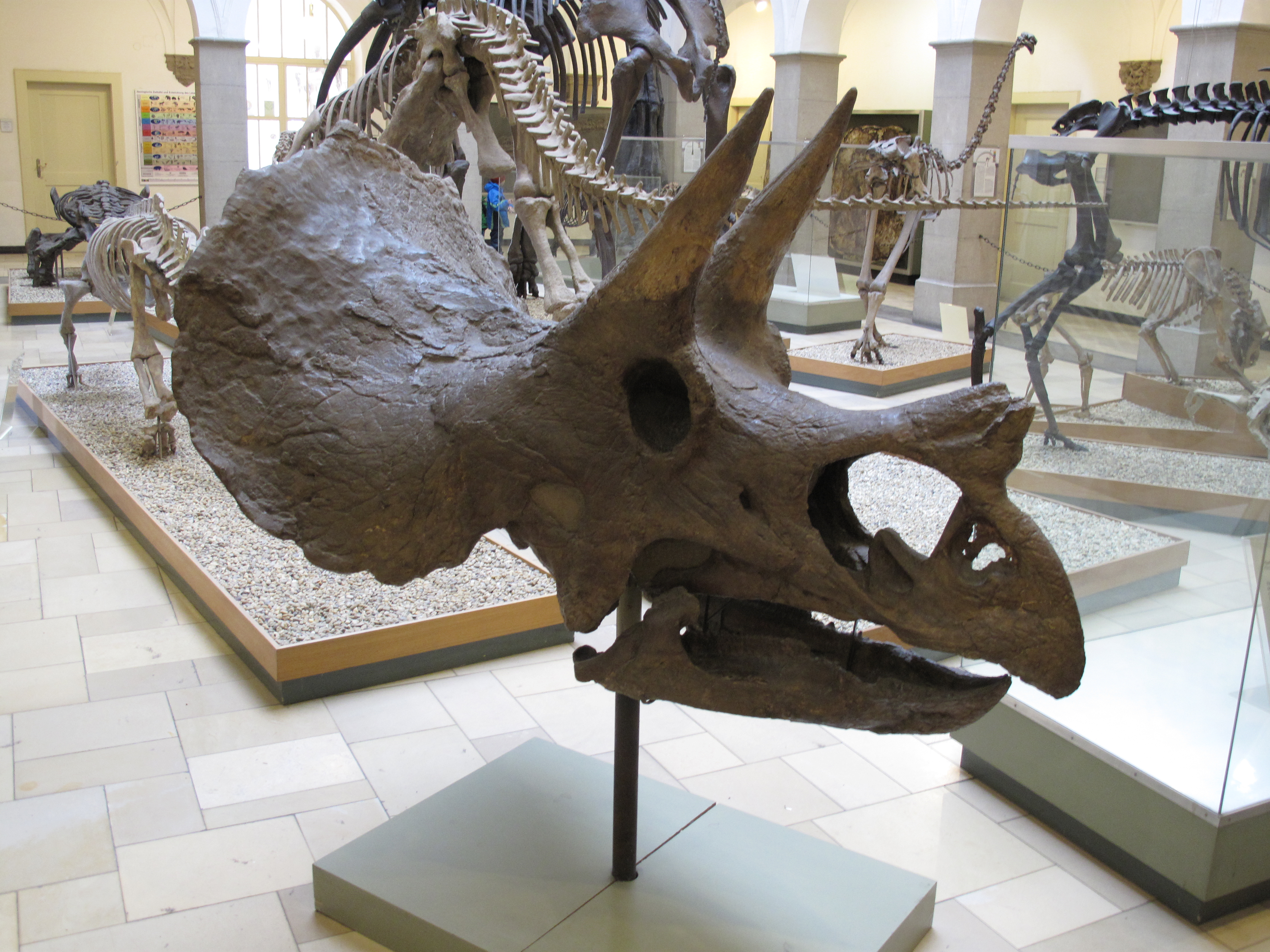 The head of a Triceratops in the Paläontologische Museum in Munich, Germany.